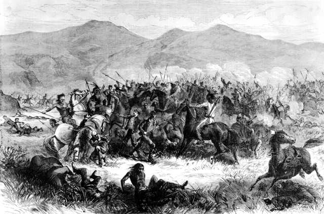 The Indian battle and massacre near Fort Philip Kearney, Dacotah Territory, December 21, 1866. Native American Sioux and Cheyenne men battle U.S. soldiers near Fort Philip Kearney, Dakota Territory.